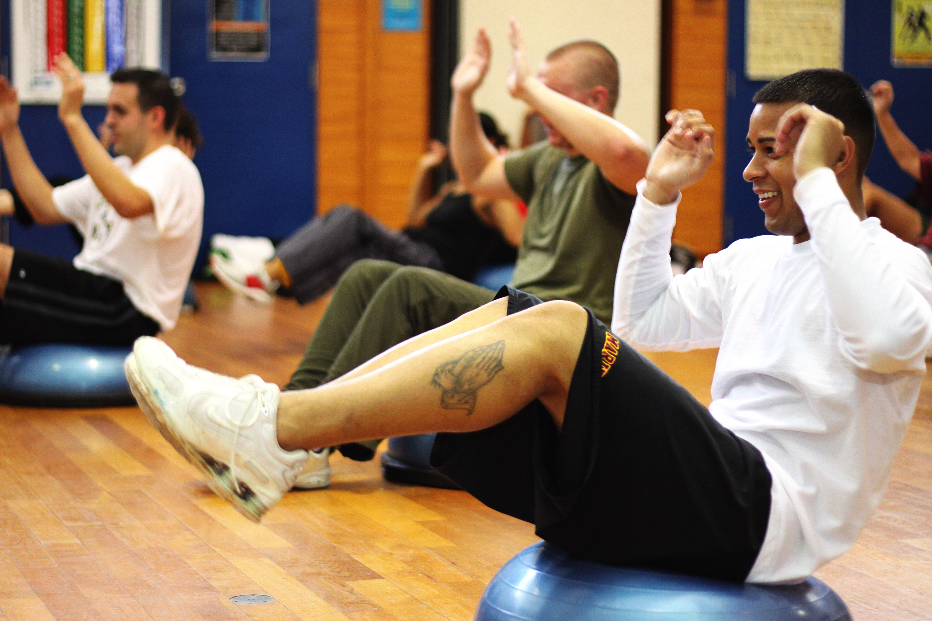 Lance Cpl. Jacob Moore balances on a Bosu during a grueling aerobics session, called the Turkey Burn, Nov. 27. The Bosu is a contraption resembling half of a beach ball — a really big beach ball — fixed to a circular plastic base.